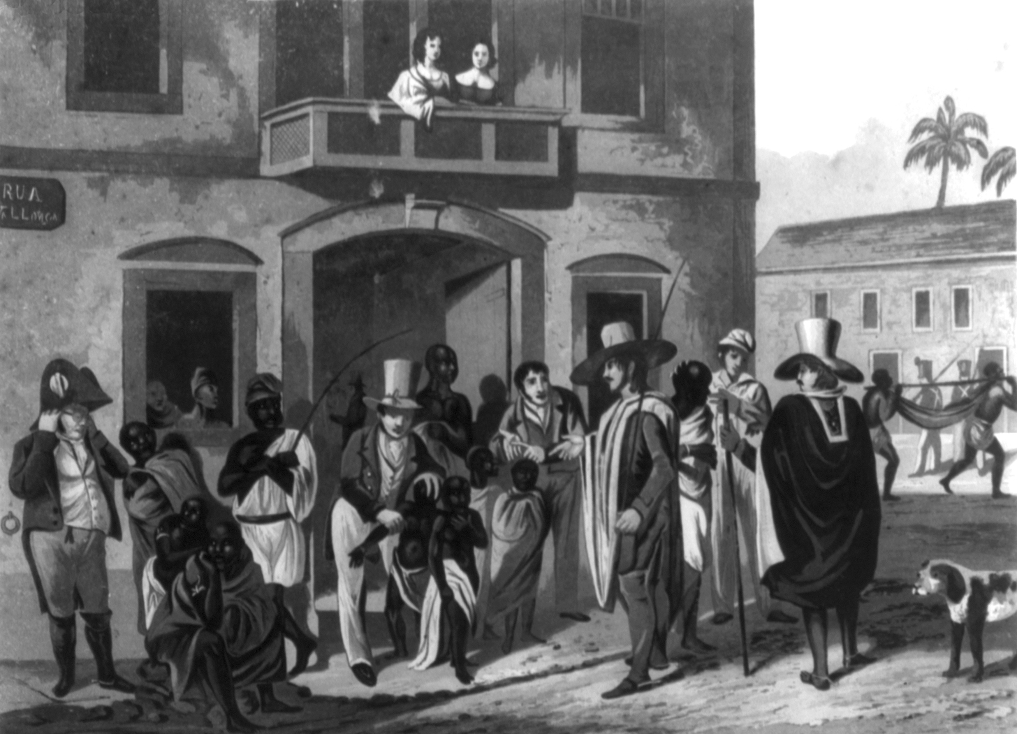 Slave market in Rio de Janeiro, Brazil.